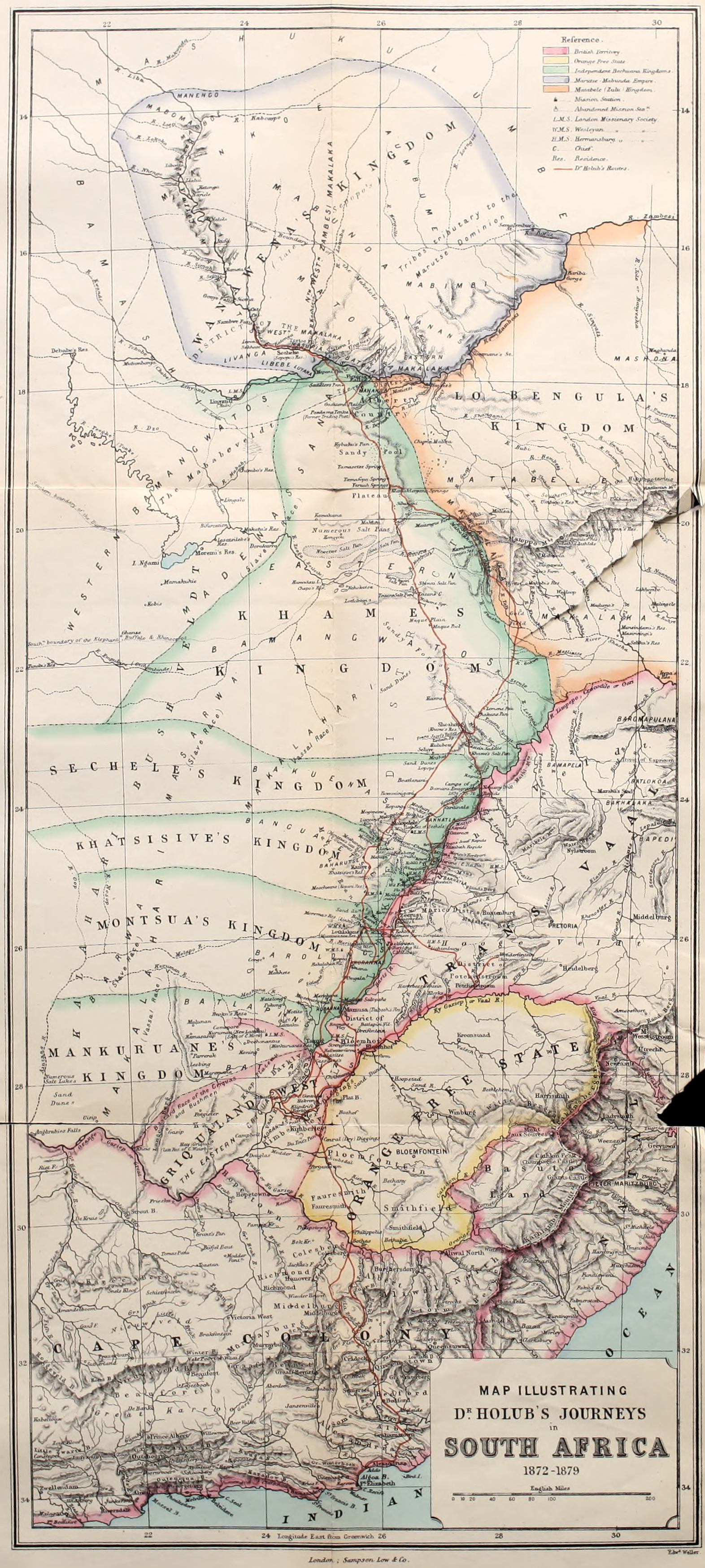 Map from the book Seven Years in South Africa, volume 1, illustrating Emil Holub's journeys in 1872–1879.